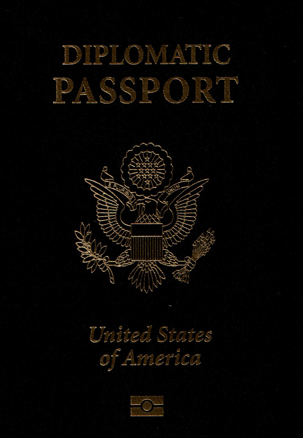 Cover of a United States diplomatic passport